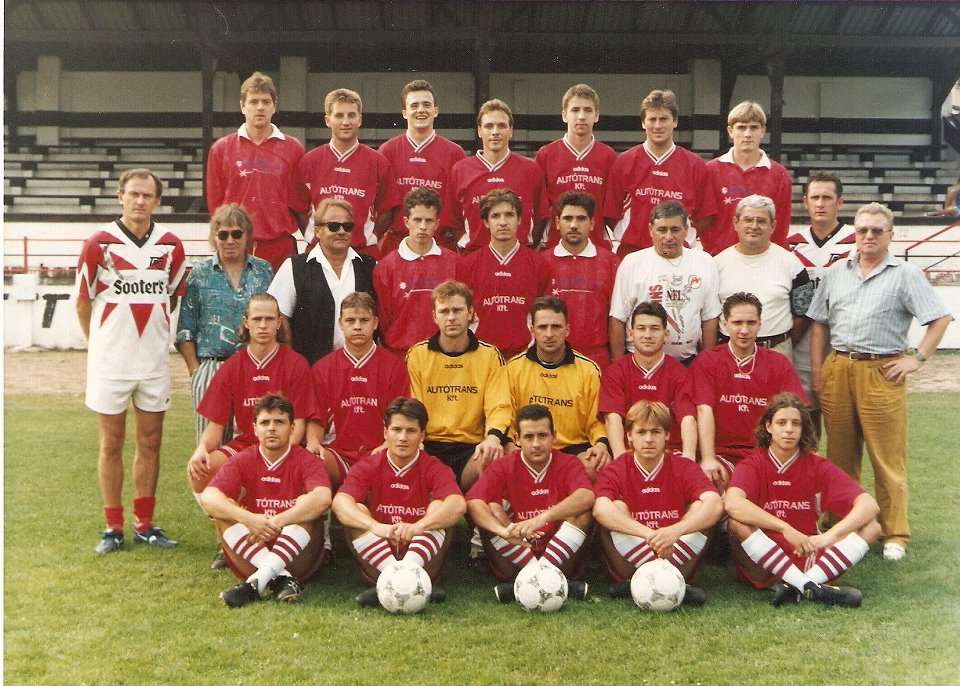 Team of Dorog before spring season of 1996